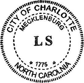 Corporate Seal of the City of Charlotte, North Carolina